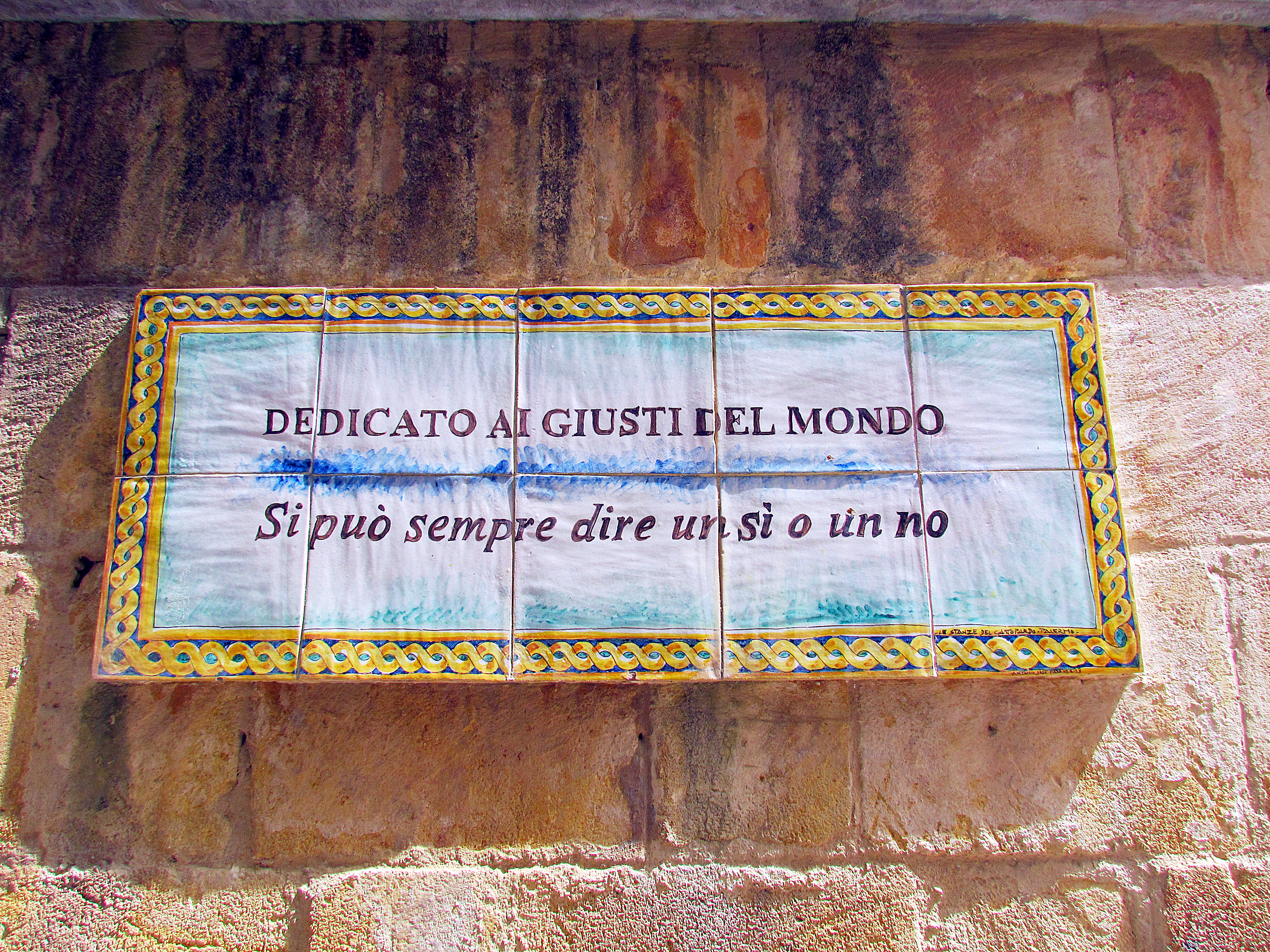 Garden of the Righteous Palermo